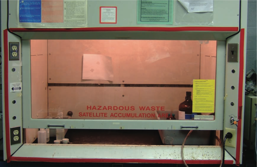 Figure 10. Conventional (constant-flow) laboratory chemical hood. The constant-flow hood constitutes the oldest, simplest chemical hood design. The exhaust fan introduces a constant volumetric air flow moving through the sash opening. For this hood design, the face velocity is lowest when the sash is wide open; when the sash is lowered the face velocity increases.